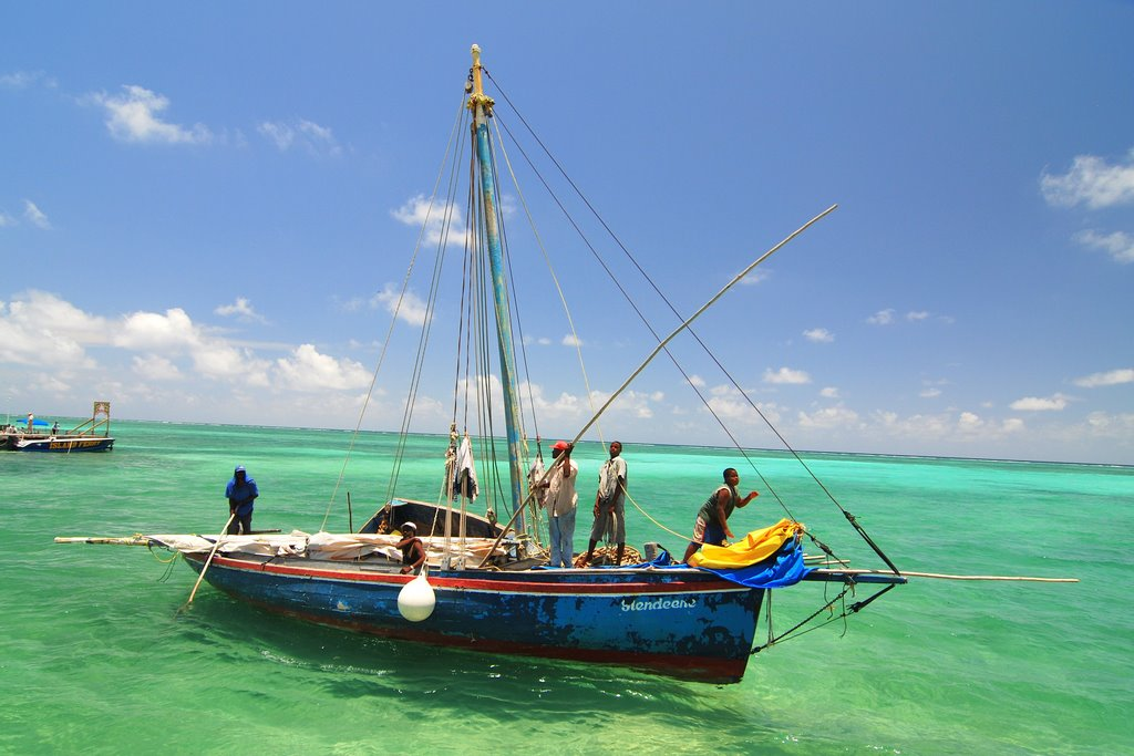 Best to View On Black Taken on the shore of Amergris Quay i was sitting BSing wth a local (my first 100 strangers shot - of which more later) when these guys sailed in. Might not be as fast as the guys in powerboats - but they are not being hot so hard by the price of gas. And I'm sure their fish taste better!! -) Licensing